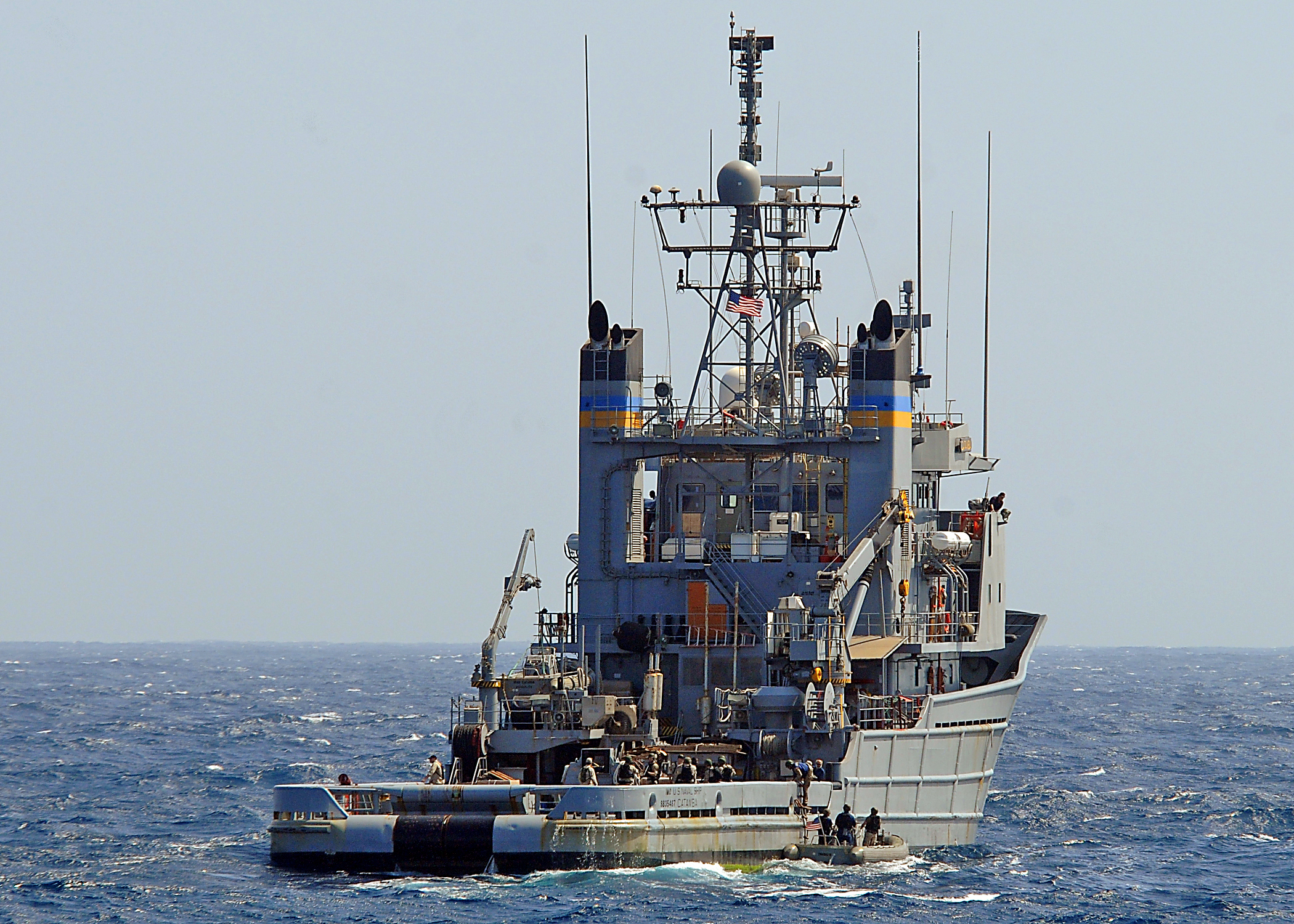 INDIAN OCEAN (Nov. 19, 2008) Sailors from the visit, board, search, and seizure team assigned to the guided-missile cruiser USS Vella Gulf (CG 72) conduct compliant boarding training aboard the Military Sealift Command fleet ocean tug USNS Catawba (T-ATF 168). Vella Gulf is deployed as part of the Iwo Jima Expeditionary Strike Group supporting maritime security operations in the U.S. 5th Fleet area of responsibility. (U.S. Navy photo by Mass Communication Specialist 2nd Class Jason R. Zalasky/Released)